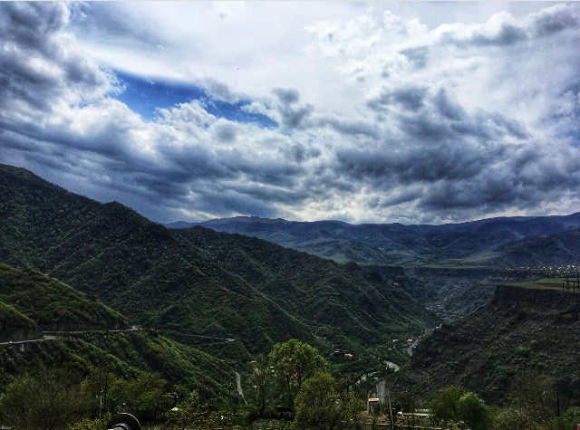 The forests of Alaverdi